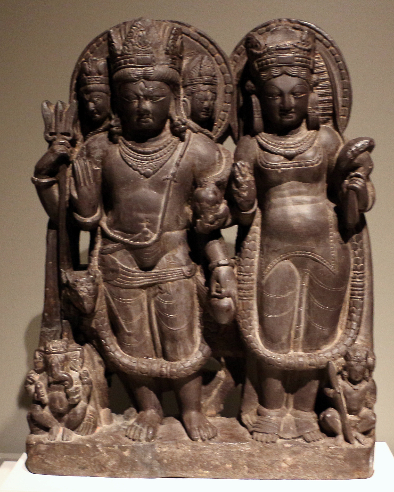 Art of India in the Cincinnati Art Museum